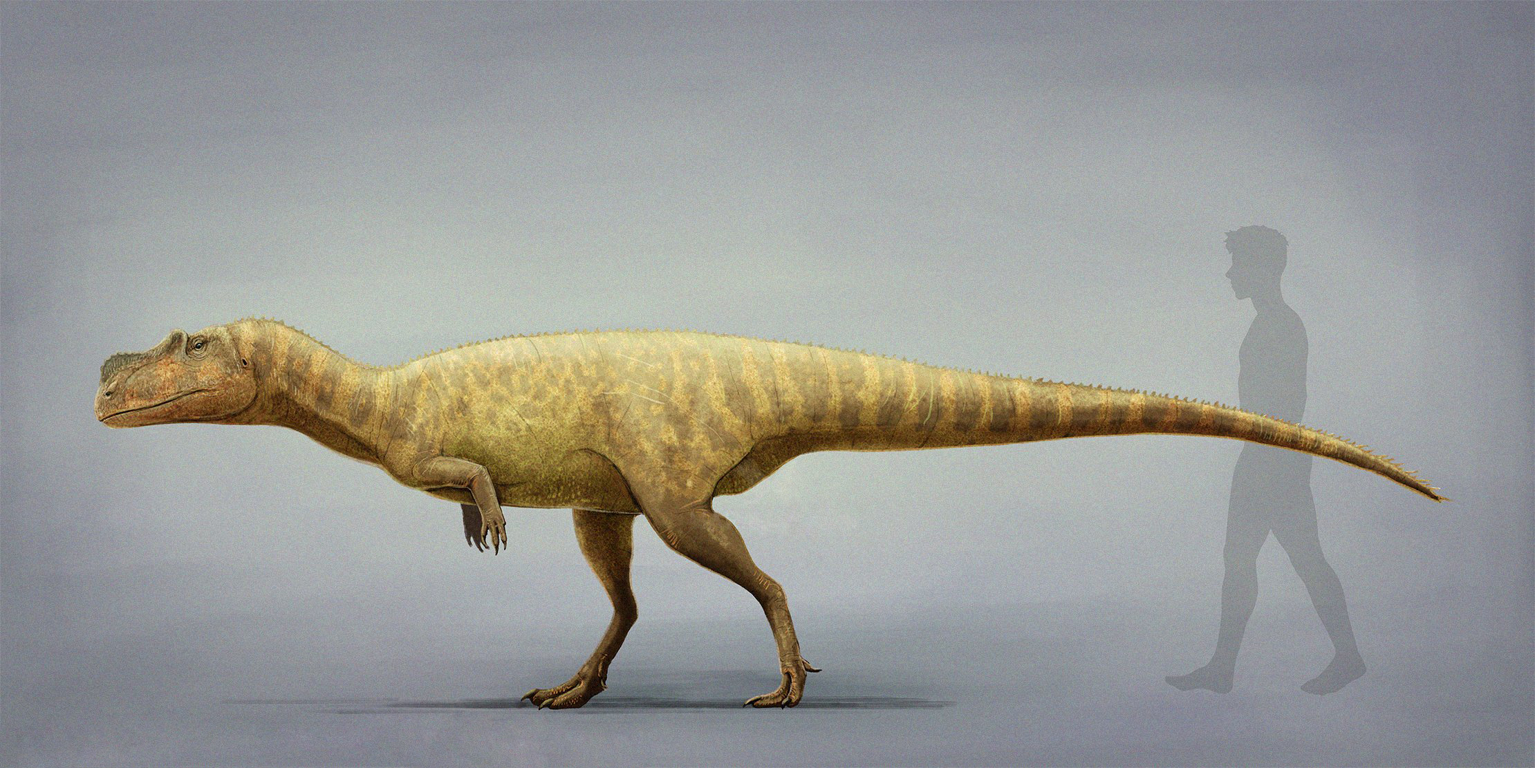 Berberosaurus life restoration y Mario Lanzas 2019